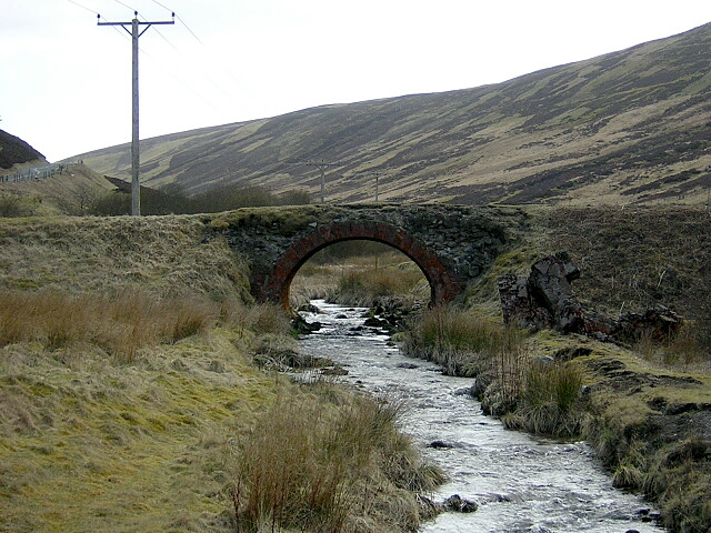 Old Bridge over Glengonnar Water